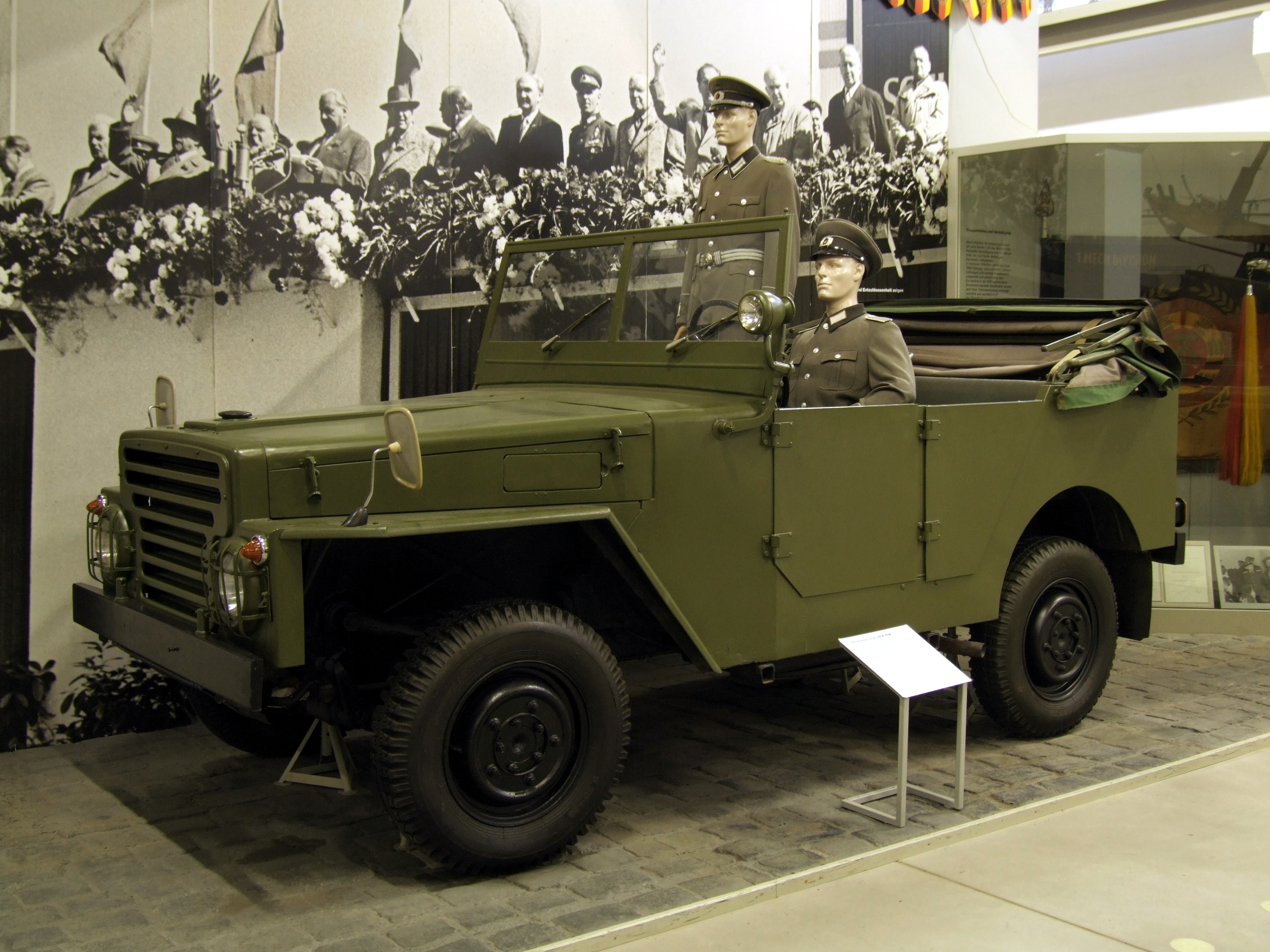 IFA P2M in Militärhistorisches Museum der Bundeswehr, Dresden. The P2 was built in World War II, P2M was modernized for GDR Nationale Volksarmee.